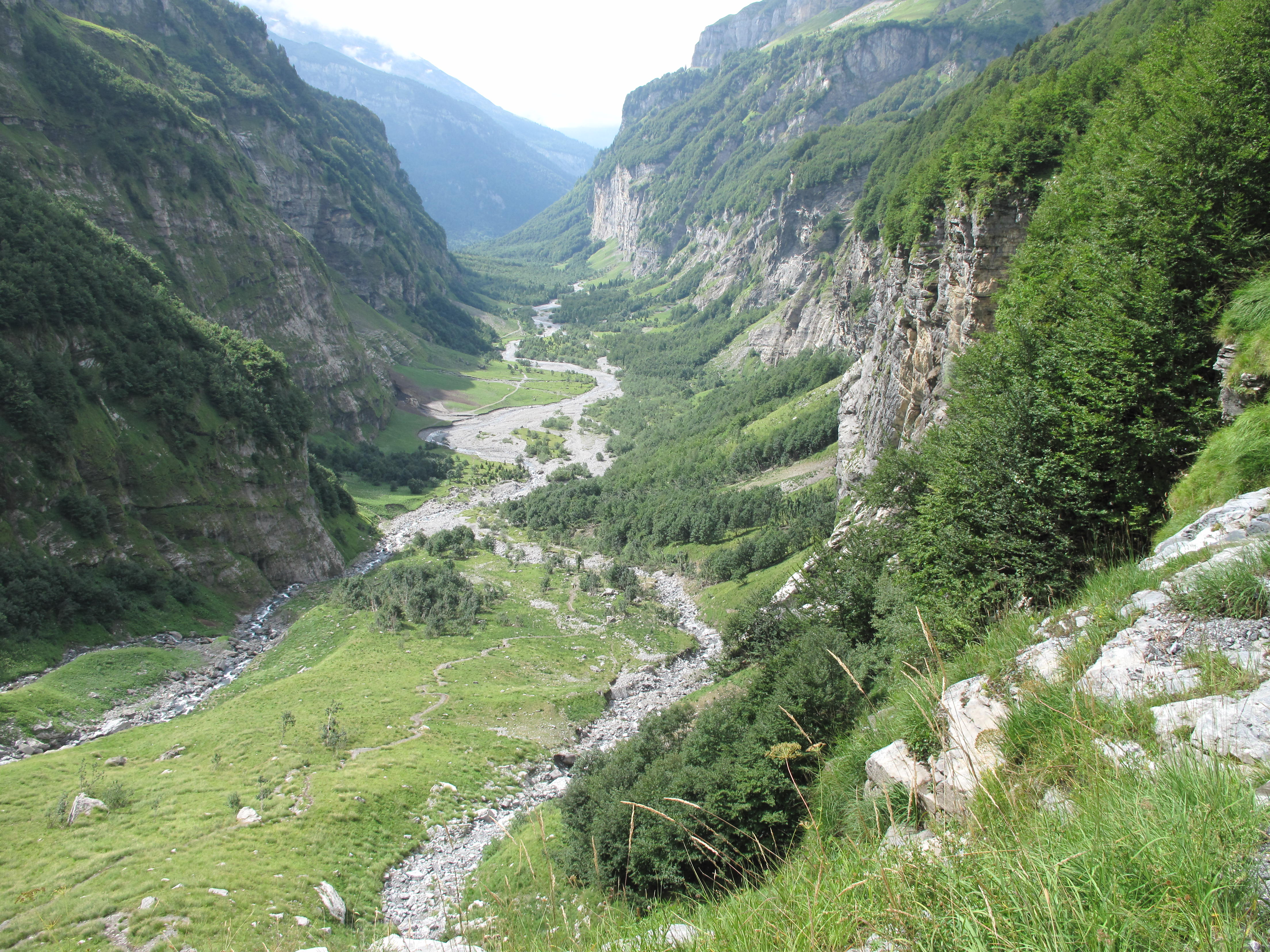 The Giffre river as braided river at the exit of the cirque du Bout du Monde (Haute-Savoie, France).